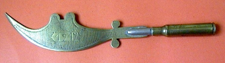 Letter opener France 1917